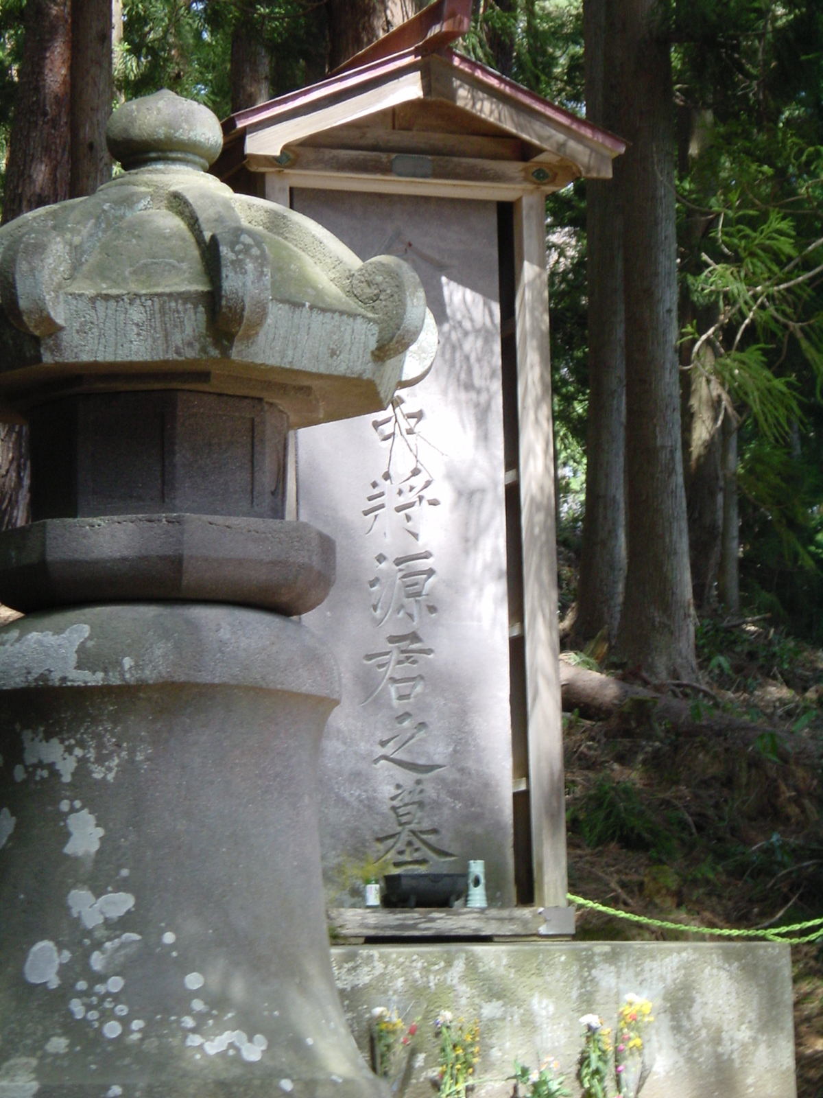 a grave of Hoshina Masayuki in Inawashiro, Fukushima, Japan